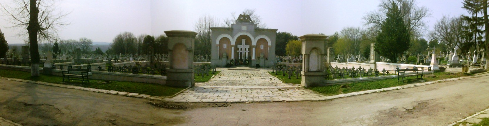 Pacea Cemetery Botoşani. Romanian Soldier Monument.